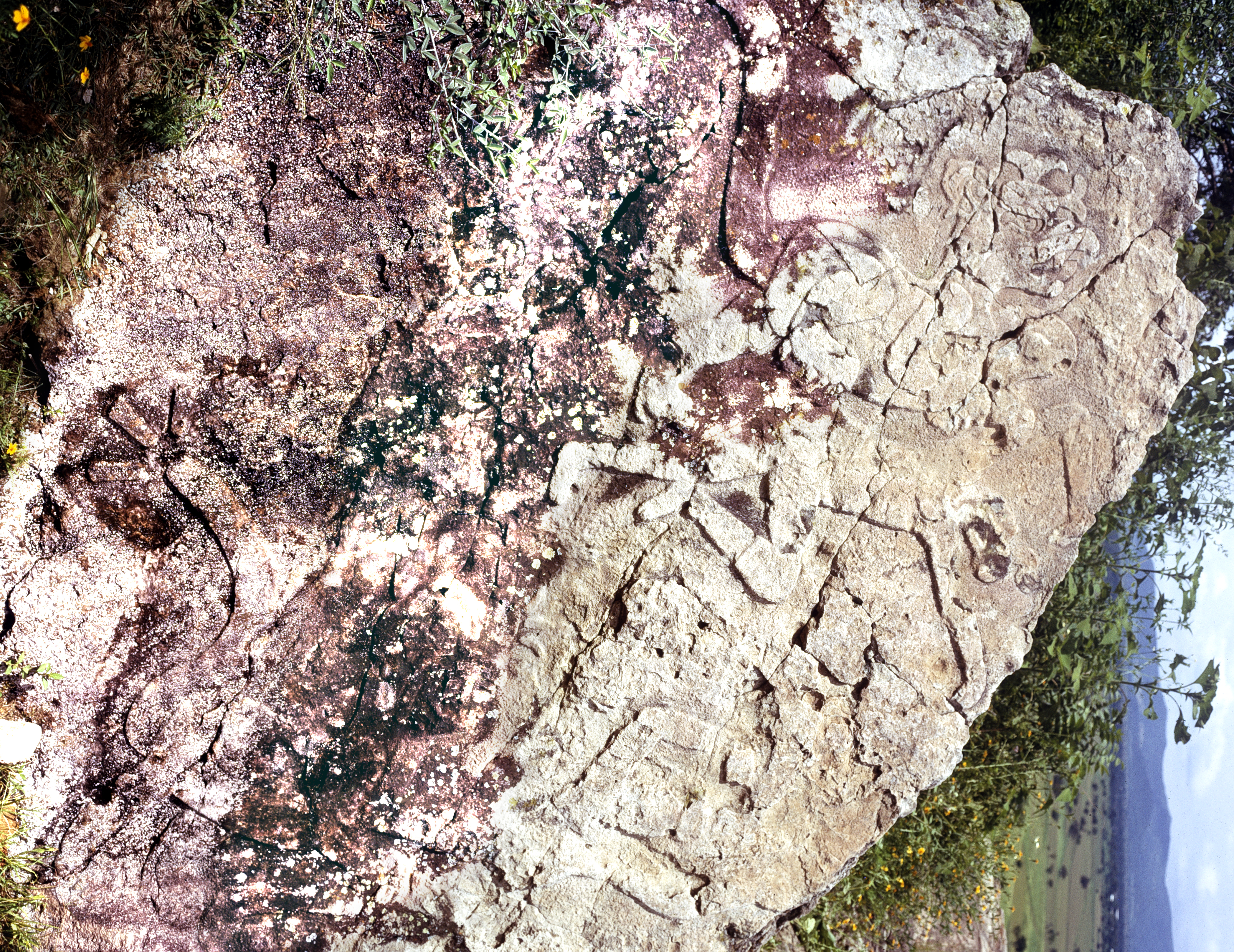 Chalcatzingo, Morelos, Mexico: Relief 4 : two stylized felines, each leaping on a human figure